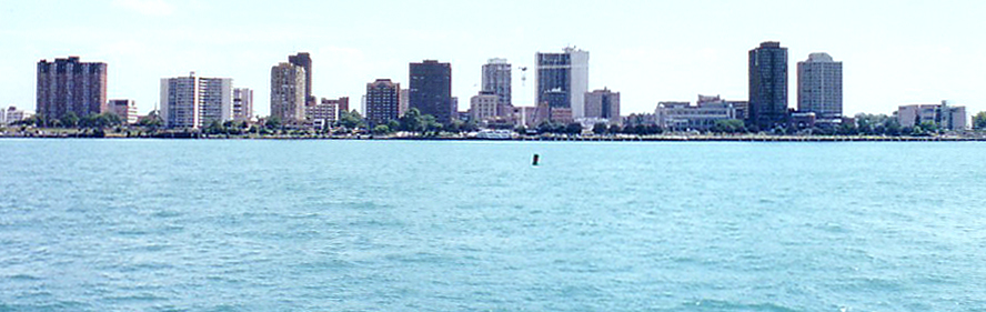 Windsor, Ontario and the Detroit River